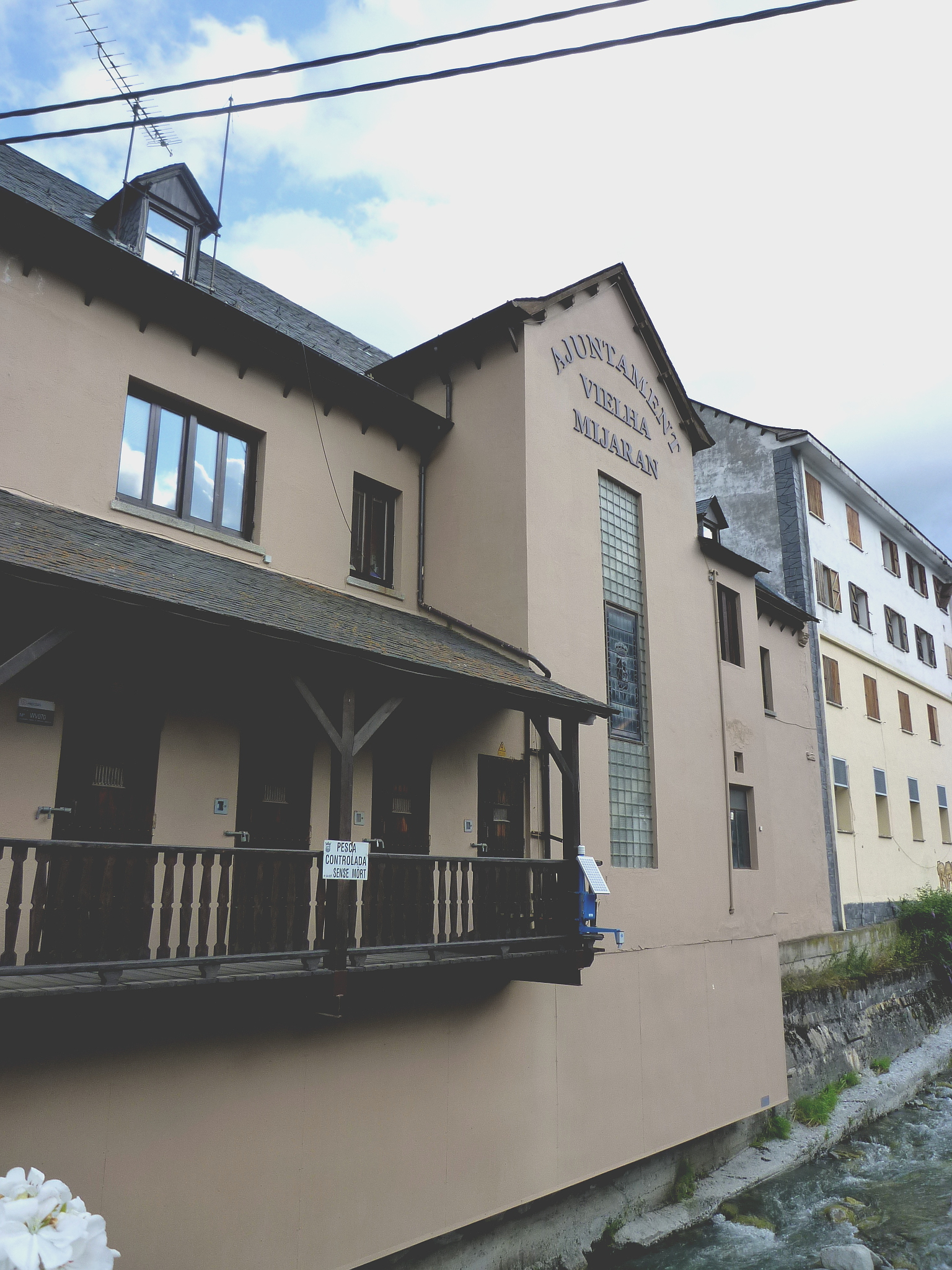 Vielha city hall (Vielha e Mijaran, Val d'Aran, Catalonia, Spain).